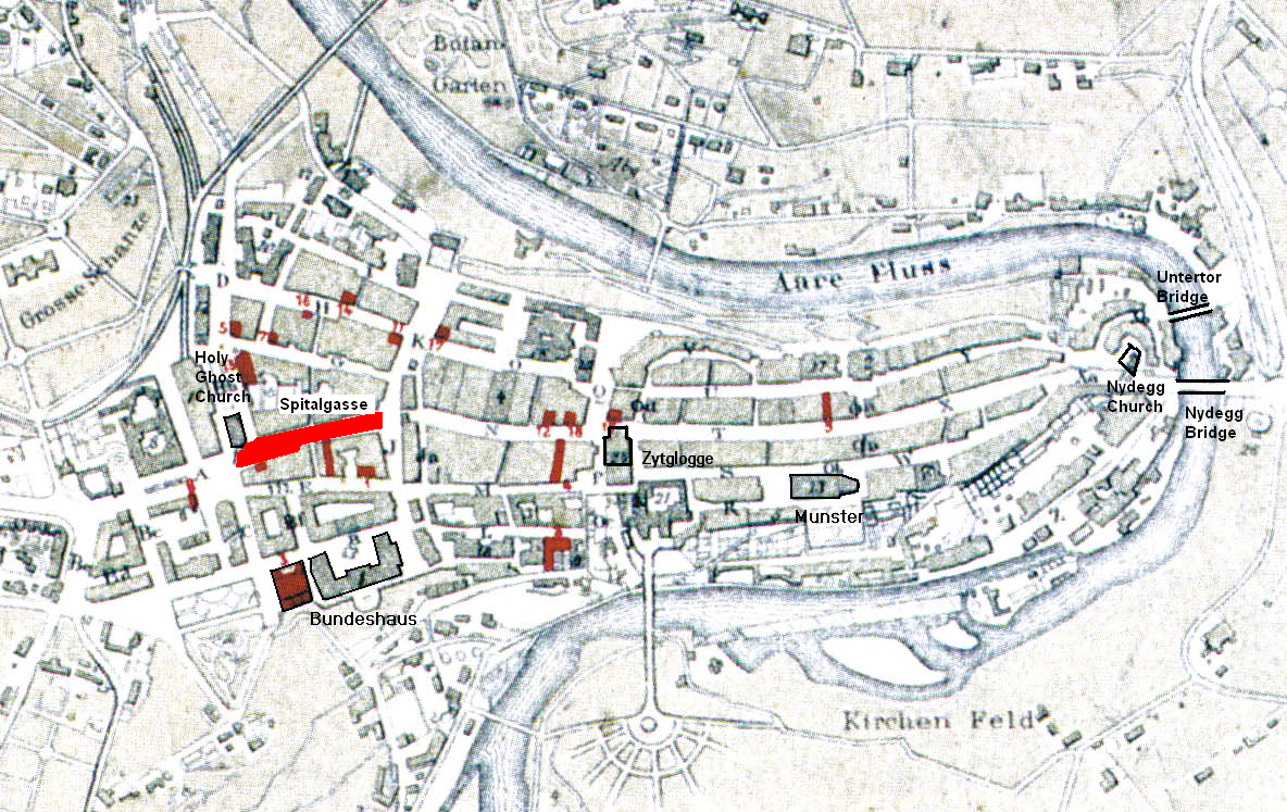 City plan of Bern, 1882. Scanned from BERN: Eine Stadt vor 100 Jahren, Bilder und Berichte; Peter Lauenberger, Emil Erne; München 1997; p. 7. Originally from Bern und seine Umgebungen, C.H. Mann, 1882 in the Alpines Museum of Bern. Due to the age of the image, it must be assumed that the author has been dead for more than 70 years. Copyright protection has therefore lapsed under Swiss copyright law (Art. 29 par. 3 URG).